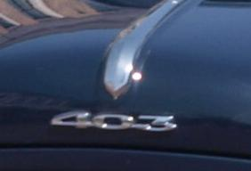 Photographed at Kampen, The Netherlands. Photographed at Kampen, The Netherlands.